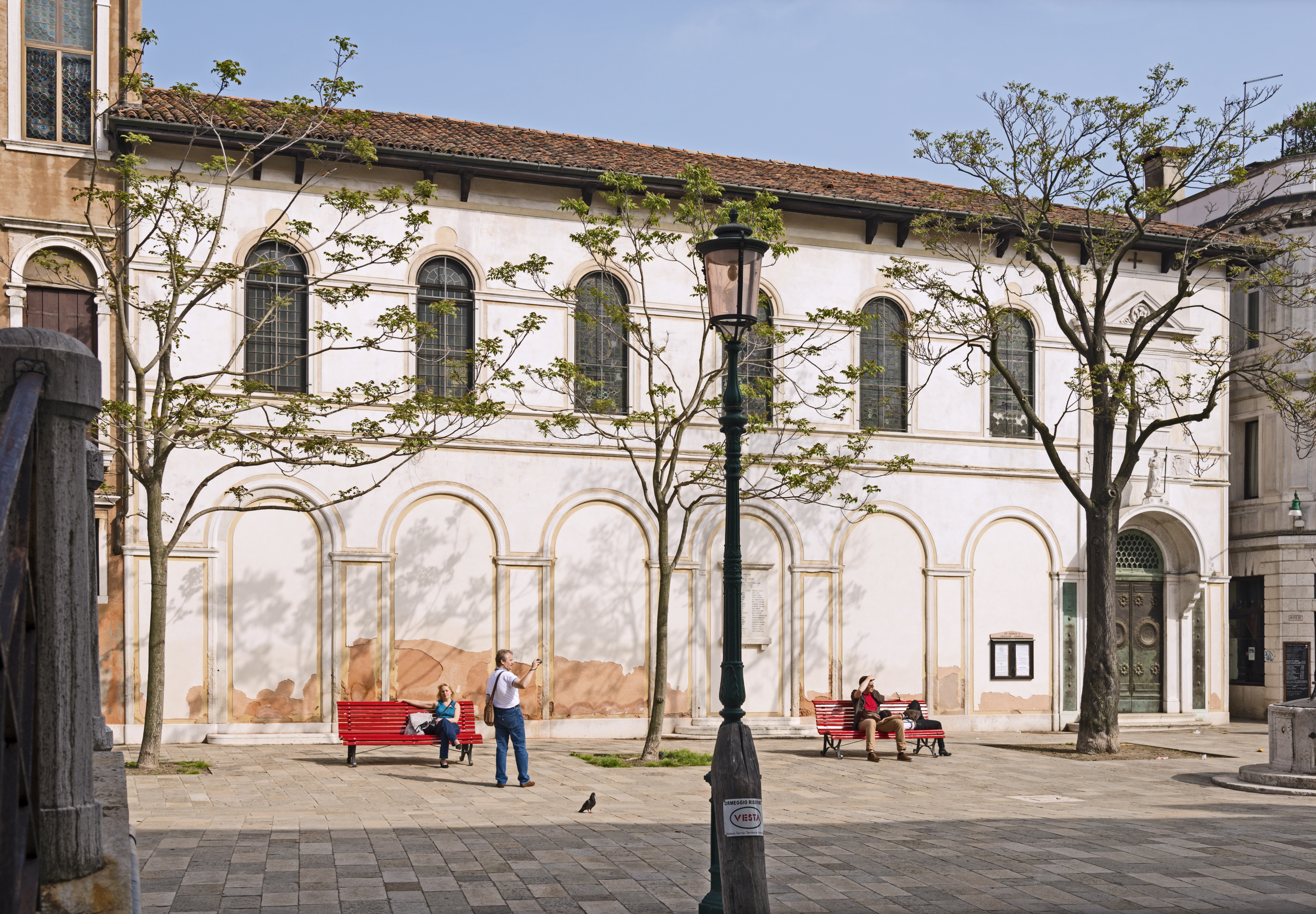 Anglican church of Saint George, in Venice.